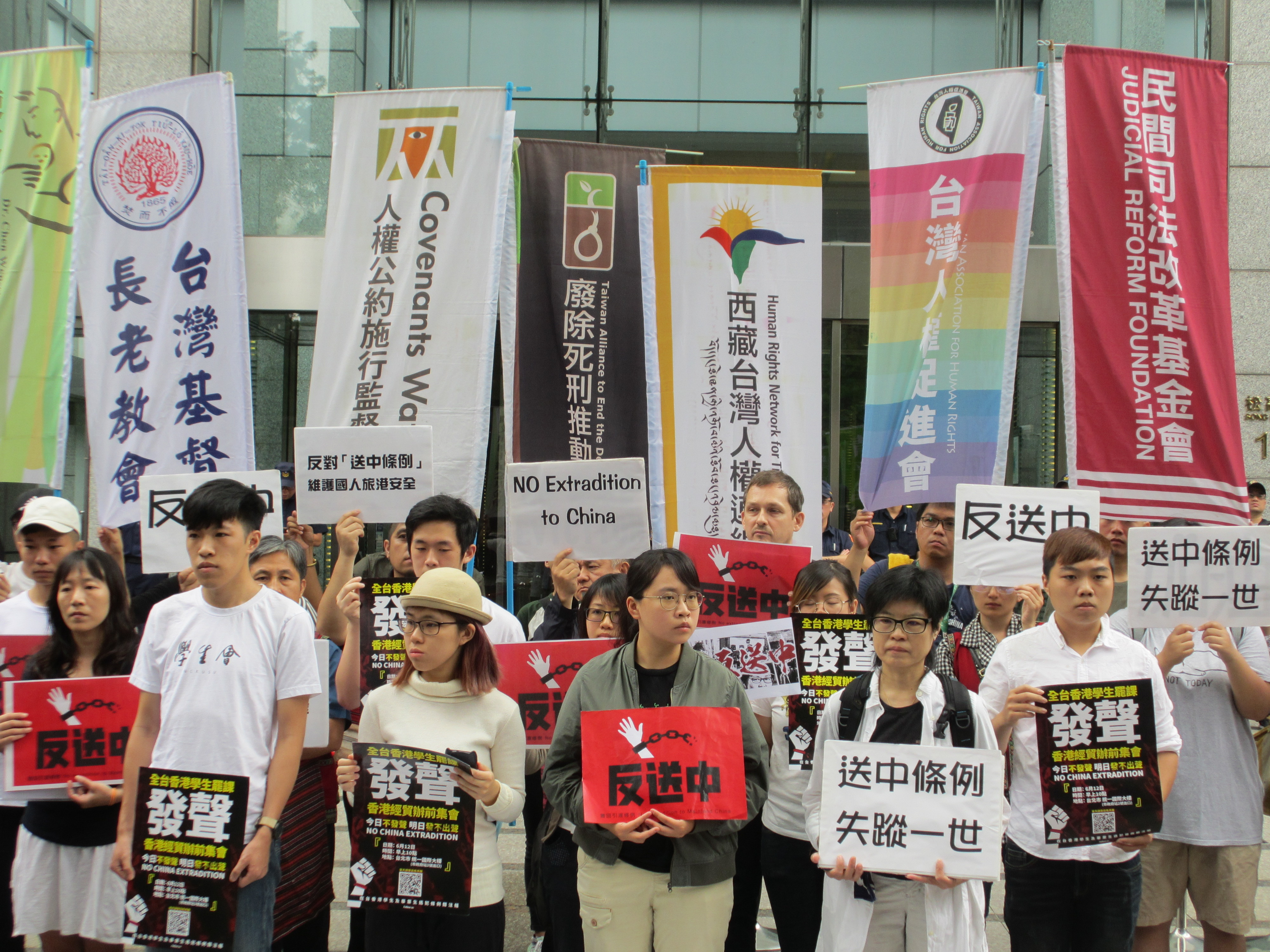 190612 Taiwan Association for Human Rights protest against HK Extradition Law